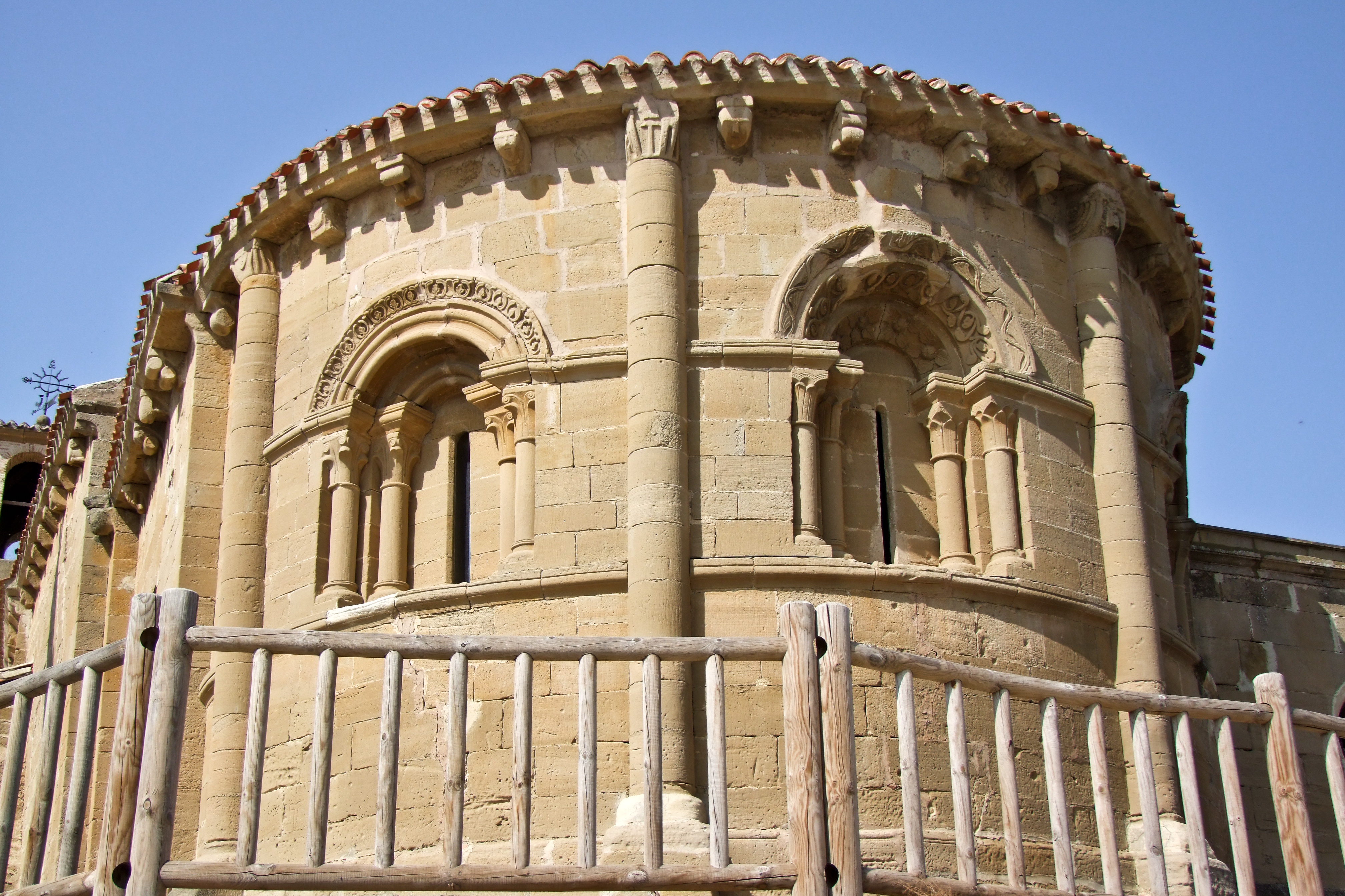 Ábside de la iglesia de San Román en la localidad de Villaseca, La Rioja - España